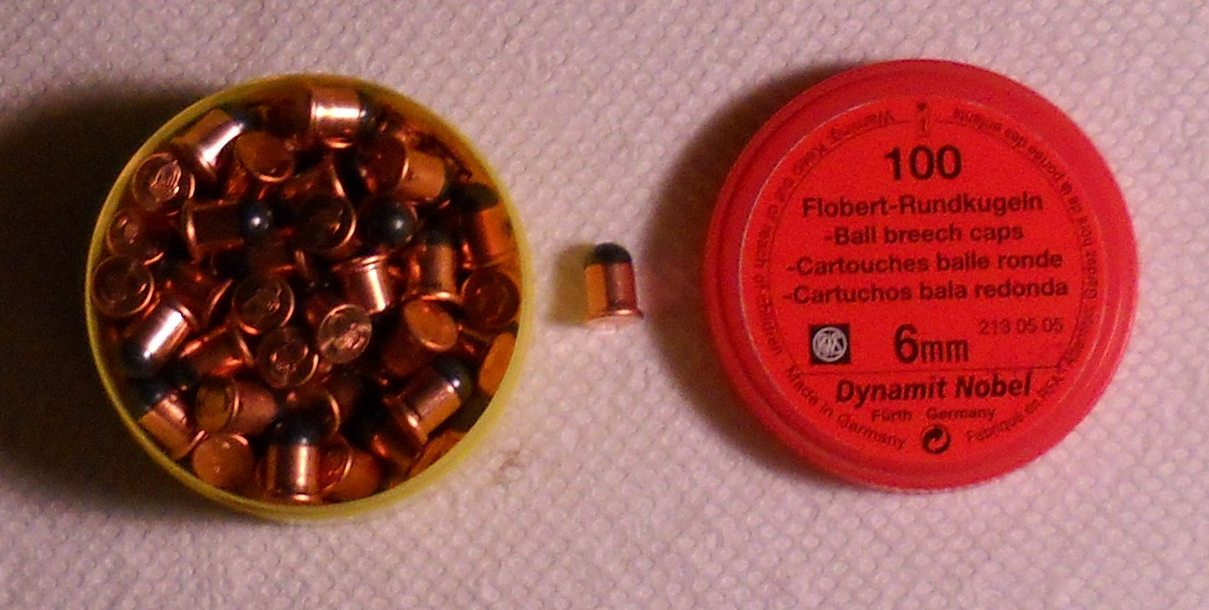 Photograph of .22 BB Cap with Container